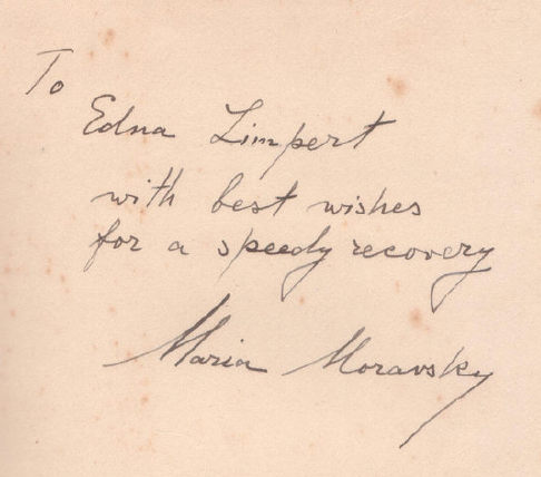 Signature of Maria Moravskaya.